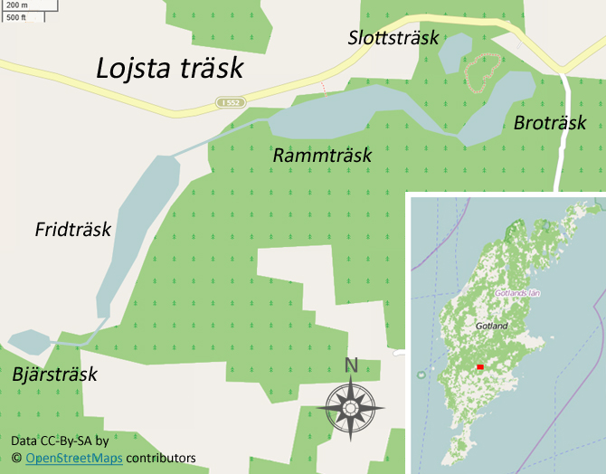 Location of the Lojsta Lakes on Gotland, Sweden